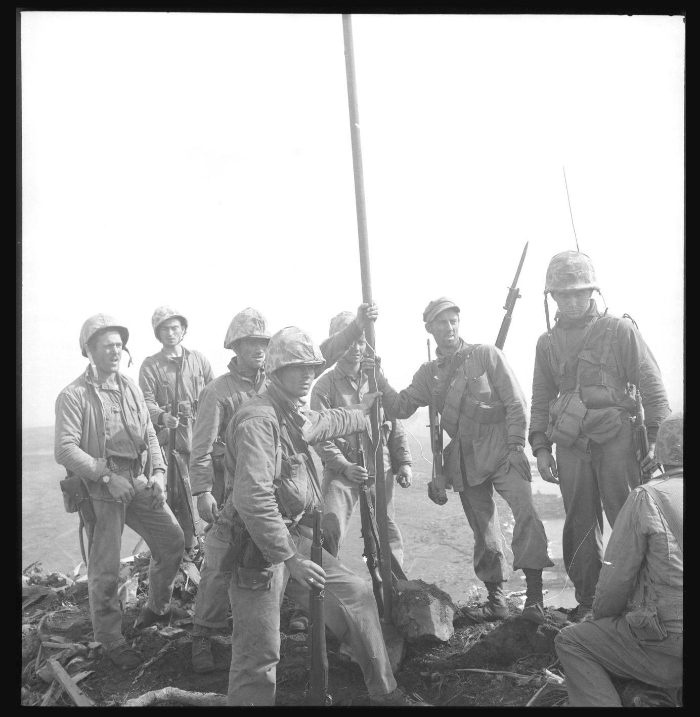 From the Louis R. Lowery Collection (COLL/2575) at the Archives Branch, Marine Corps History Division OFFICIAL USMC PHOTOGRAPH